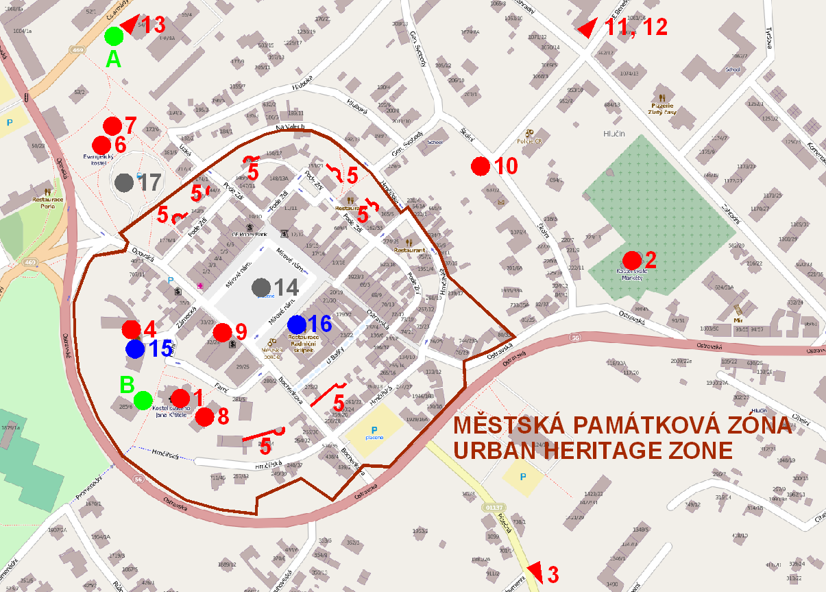 Hlučín, Urban Heritage Zone This map of Hlučín, okres Opava, was created from OpenStreetMap project data, collected by the community. This map may be incomplete, and may contain errors. Don't rely solely on it for navigation.